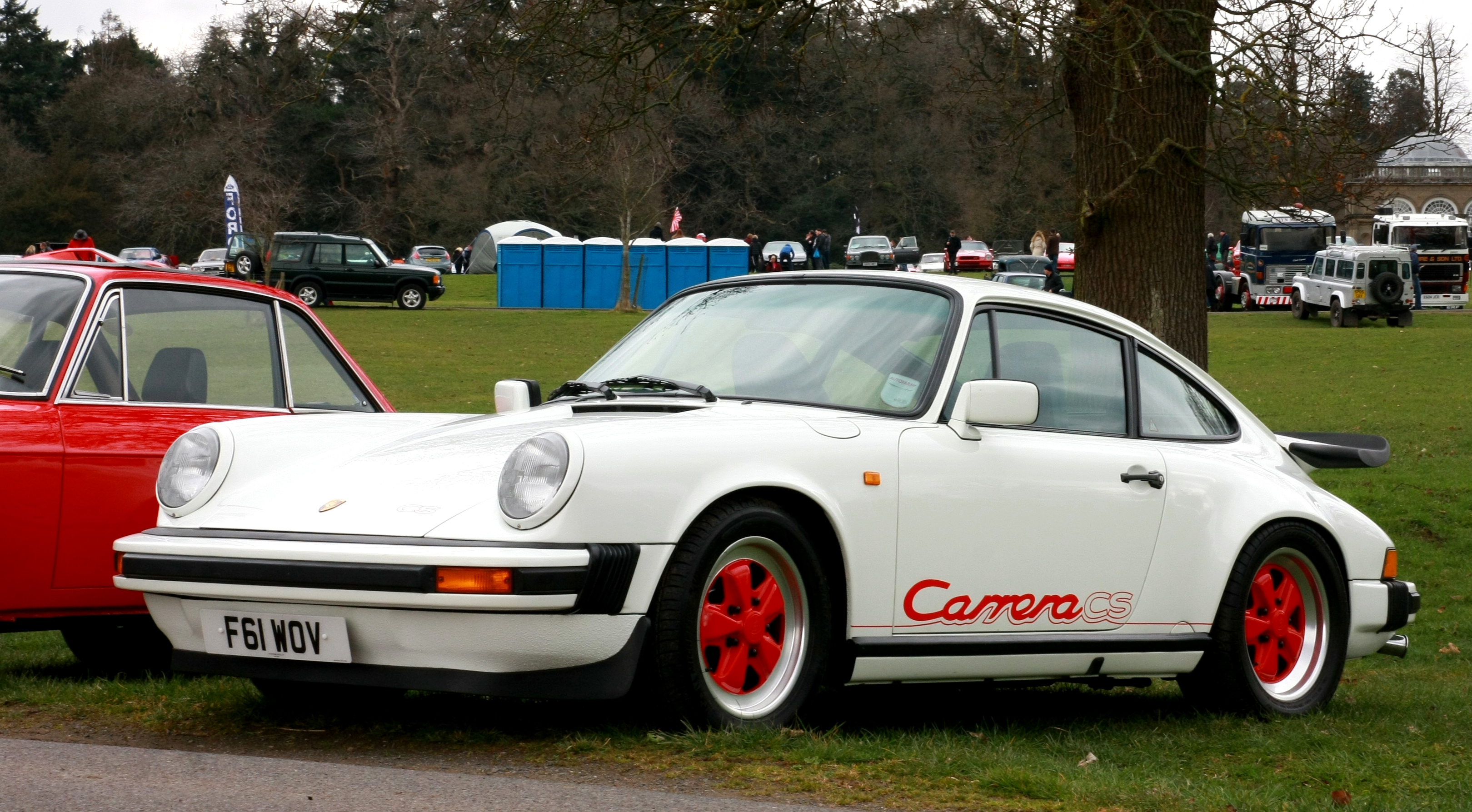 Porsche Carrera CS (1988) at Weston Park